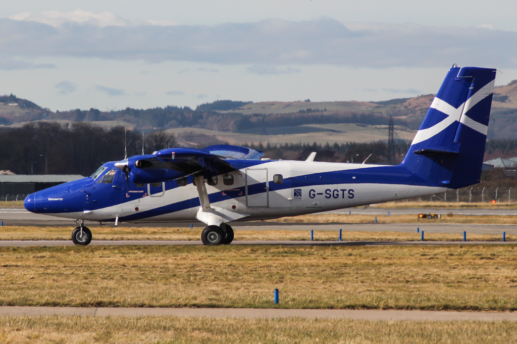 G-SGTS DHC-6-400 Twin Otter Loganair at Glasgow Airport